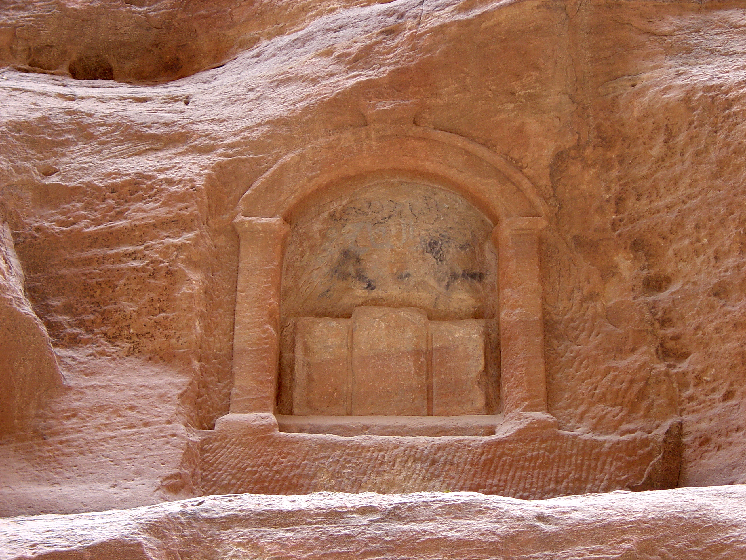 Petra Survey Project ID: 60.10 The Siq, Petra The niche presents three baetyls side-by side, underneath an arch supported by pilasters. Its surface pattern of chisel-marks indicates that the niche was abandoned before completion.